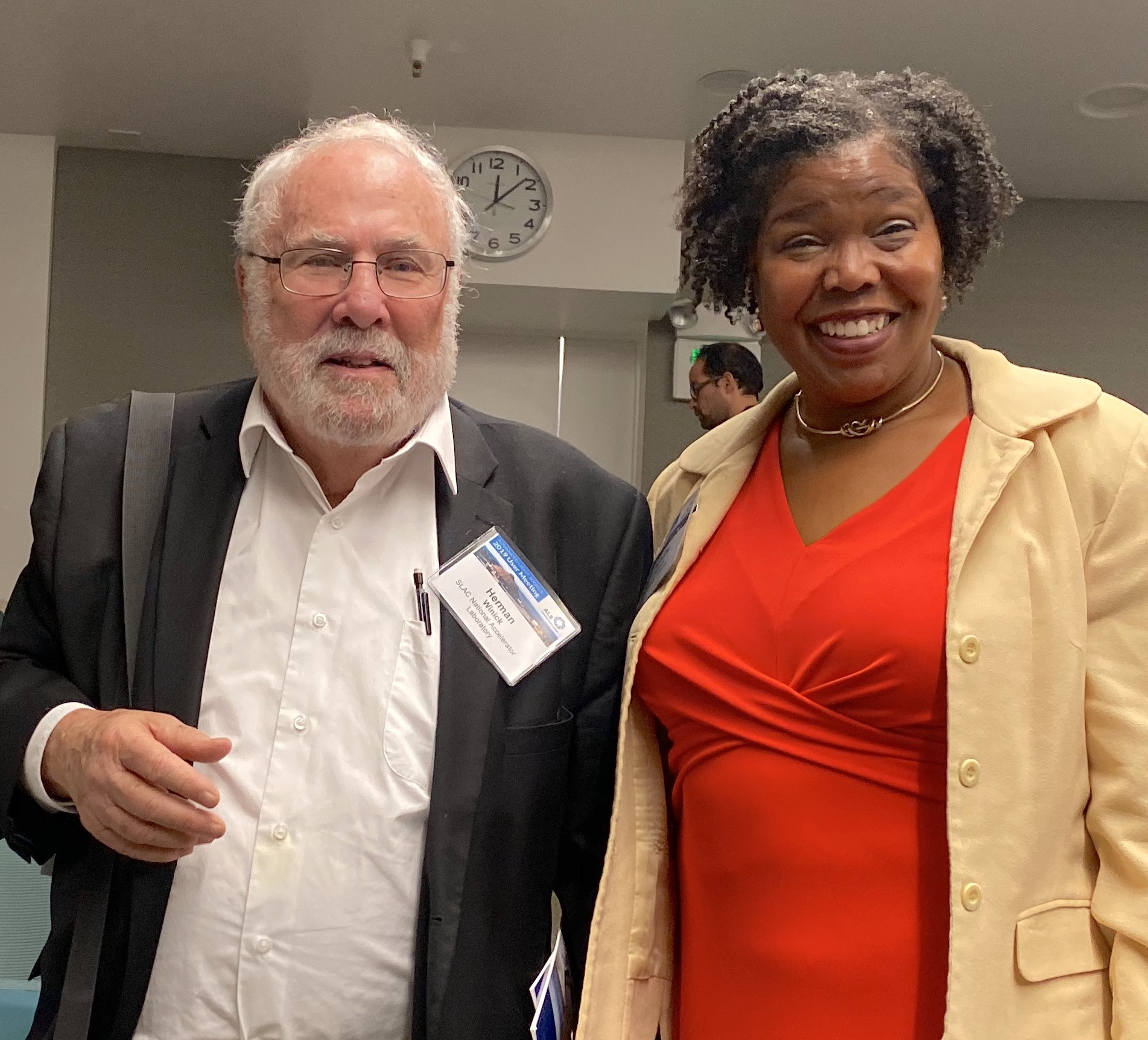 Herman Winick and Tabbetha Dobbins at the Advanced Light Source User meeting 2019